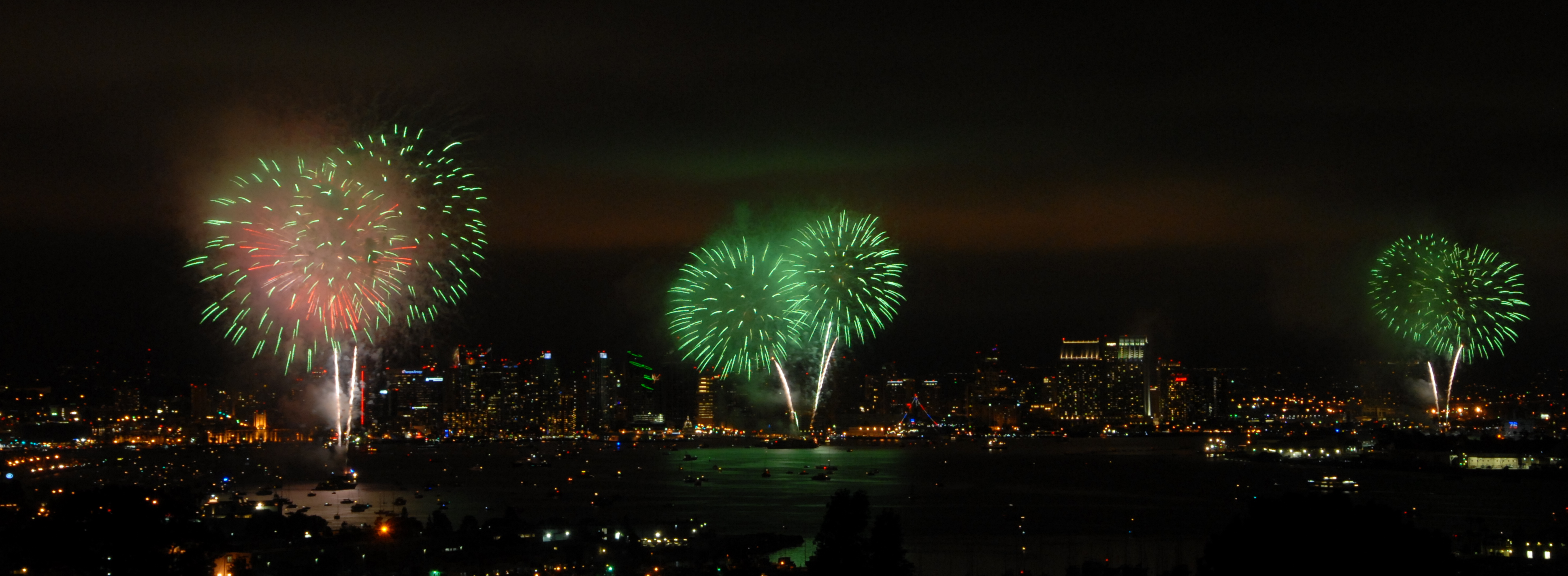 Fourth of July fireworks above San Diego Bay in San Diego, California